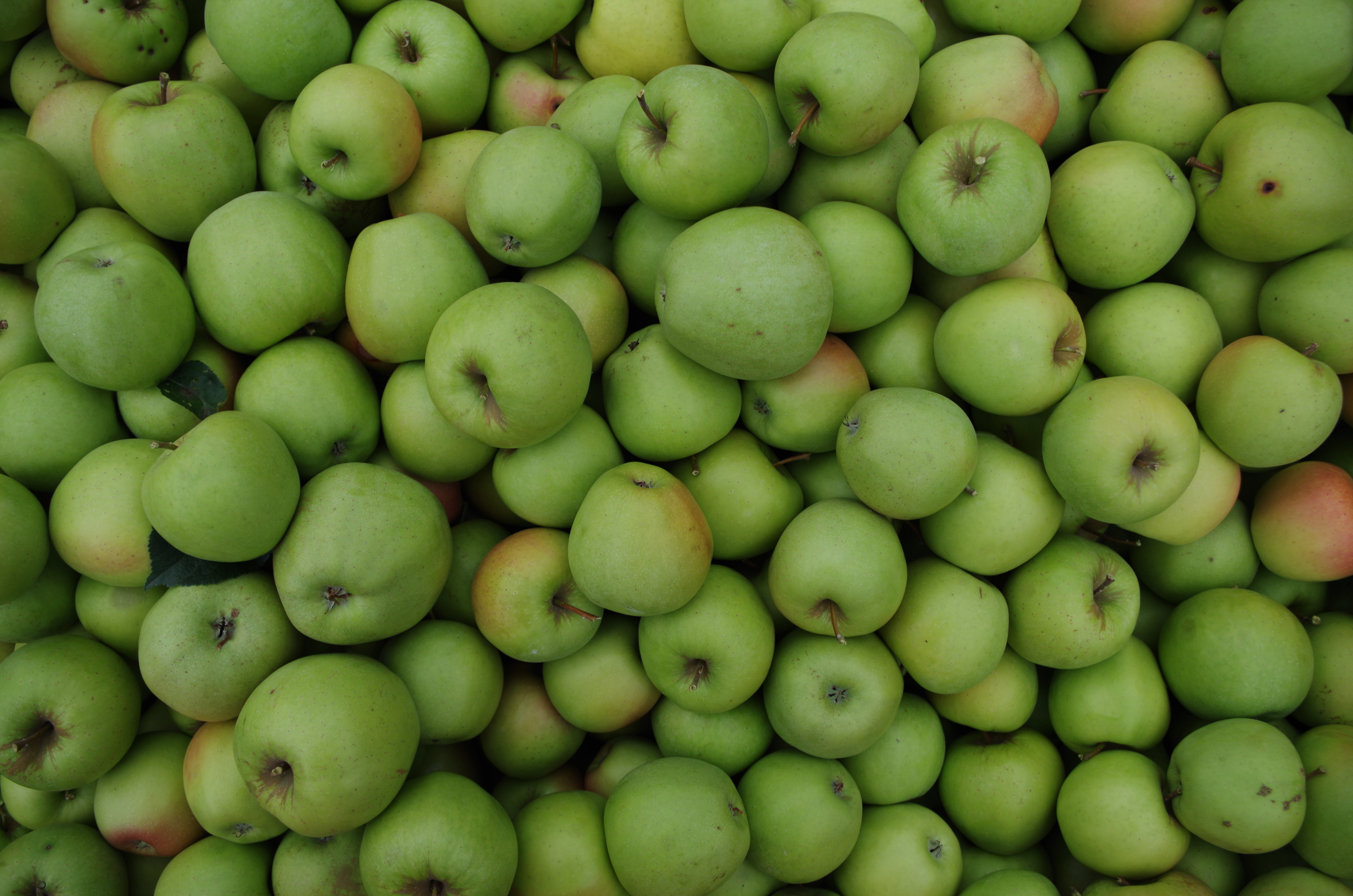 Apples in the village of Ljubojno, Macedonia